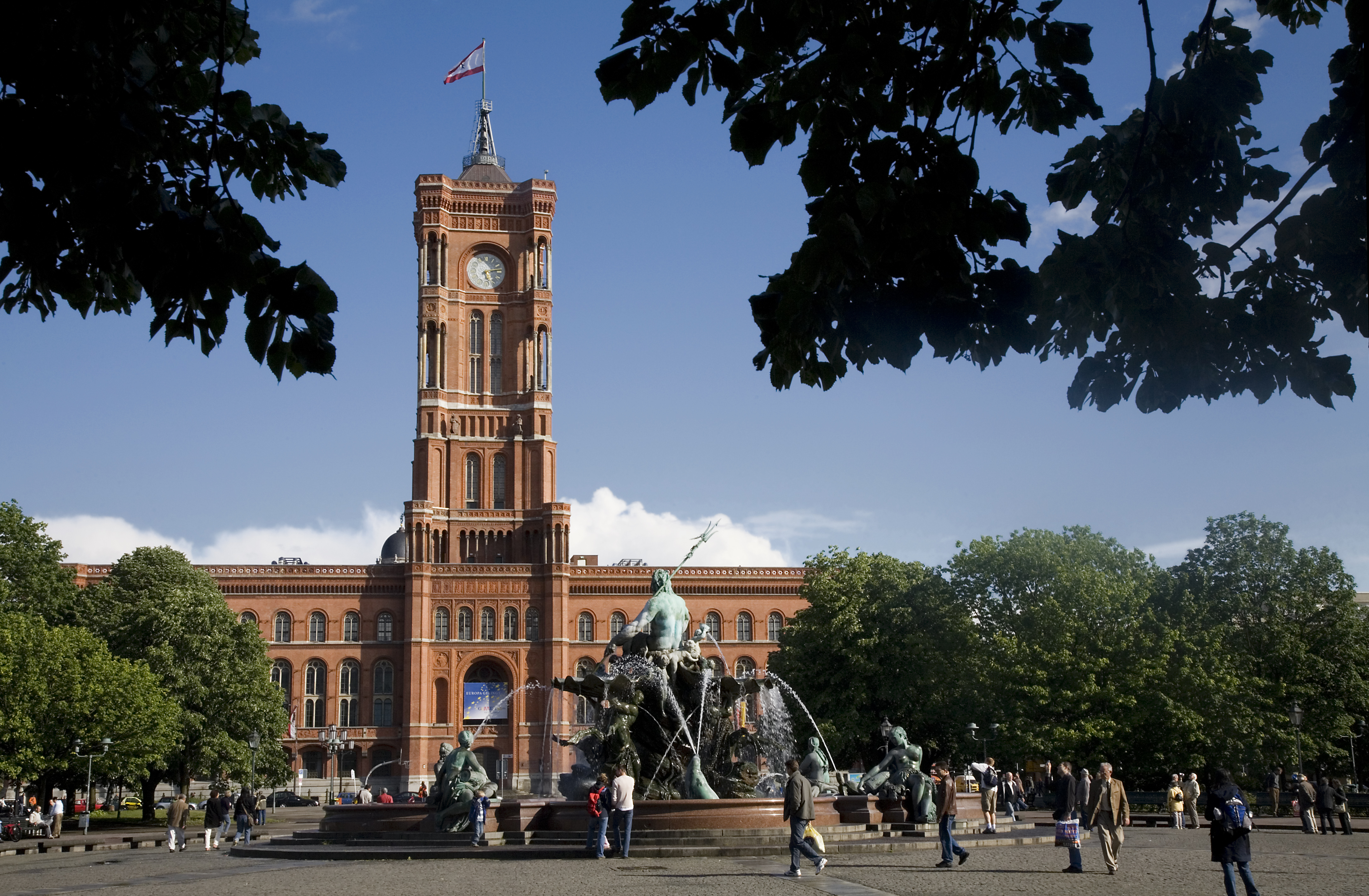 The Rotes Rathaus (Red Town Hall) with the Neptunbrunnen (Neptune fountain) in front . Berlin, Germany